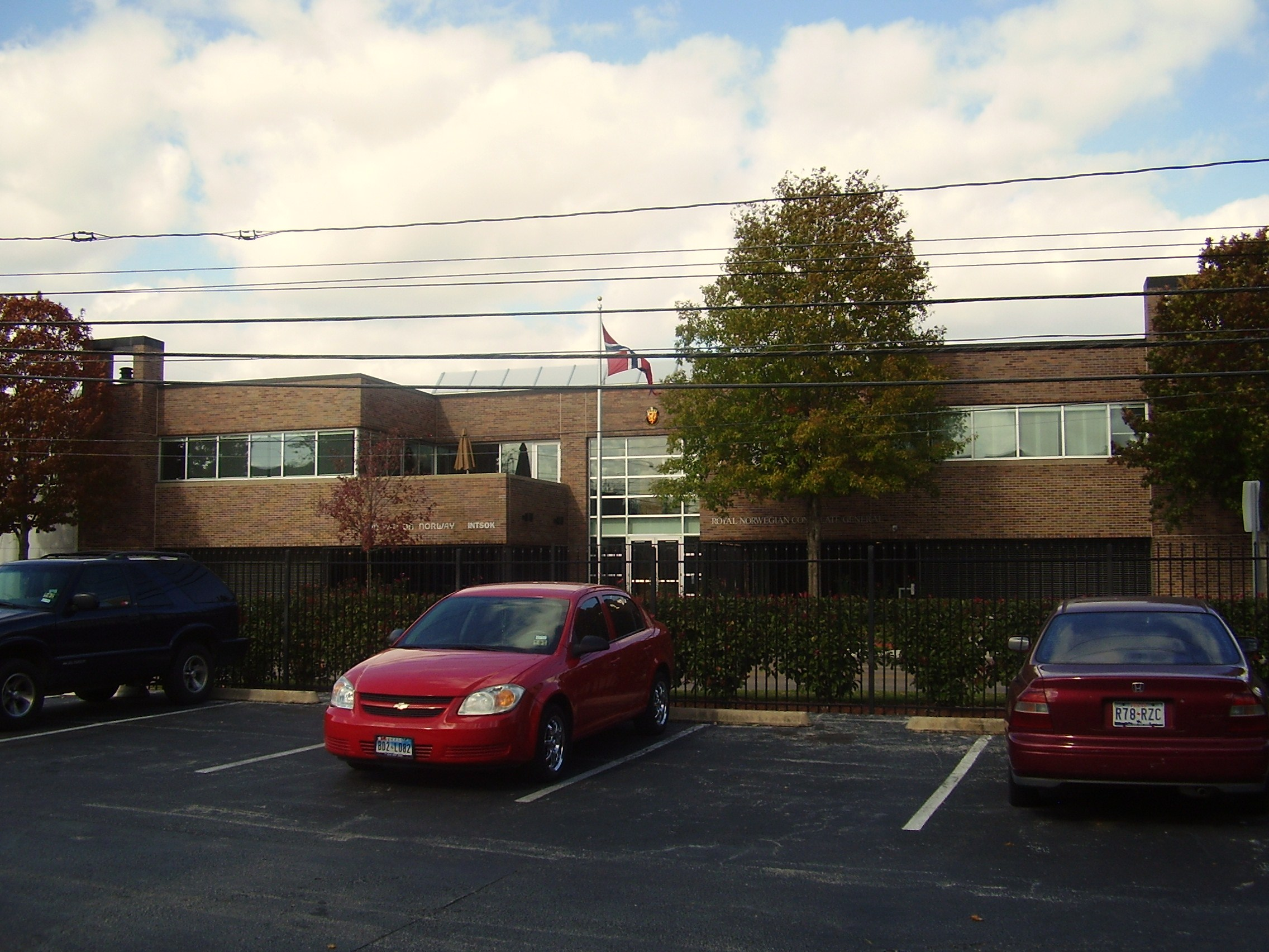 Norway House, which houses the Consulate-General of Norway in Houston